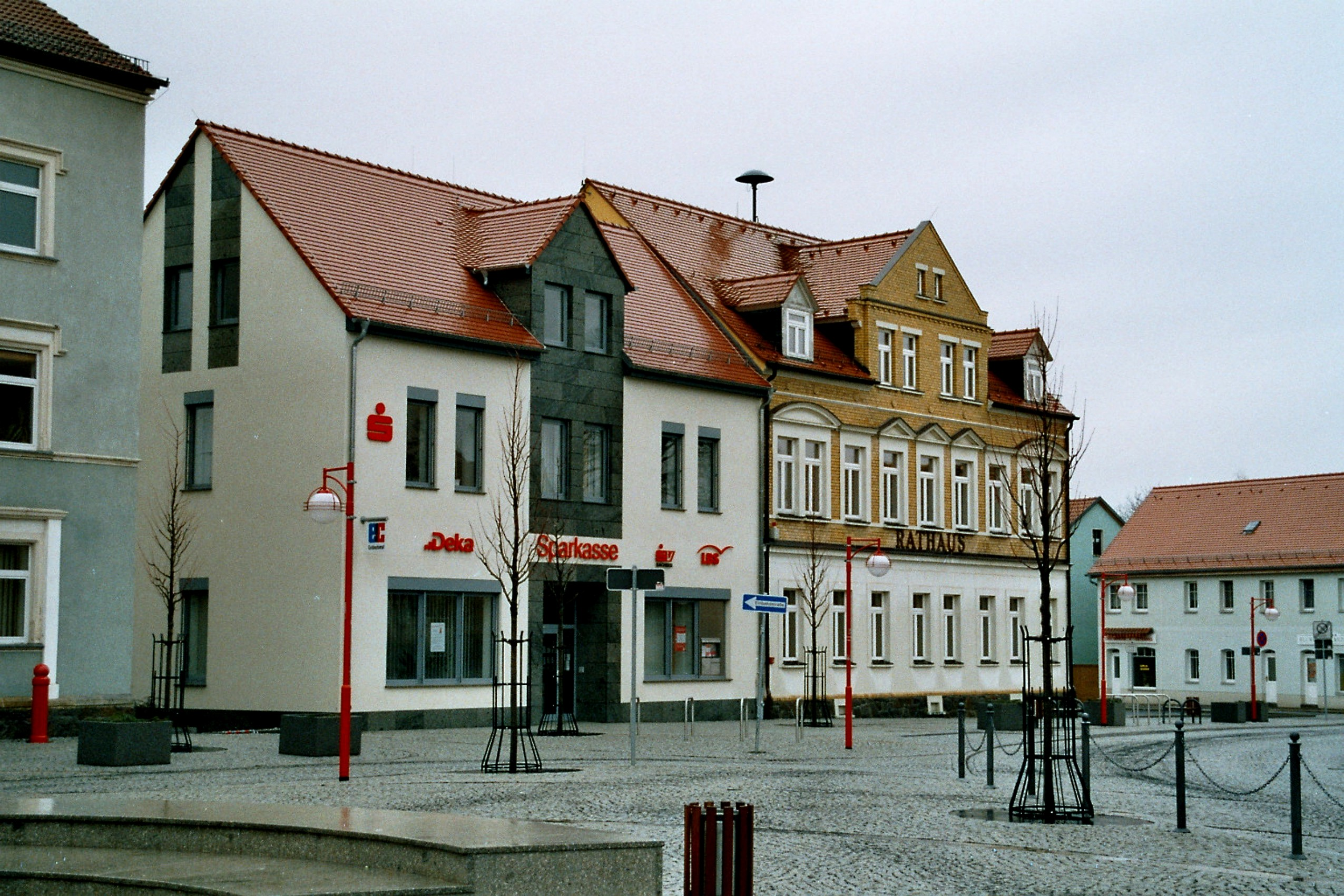 The urban square, view to the townhall